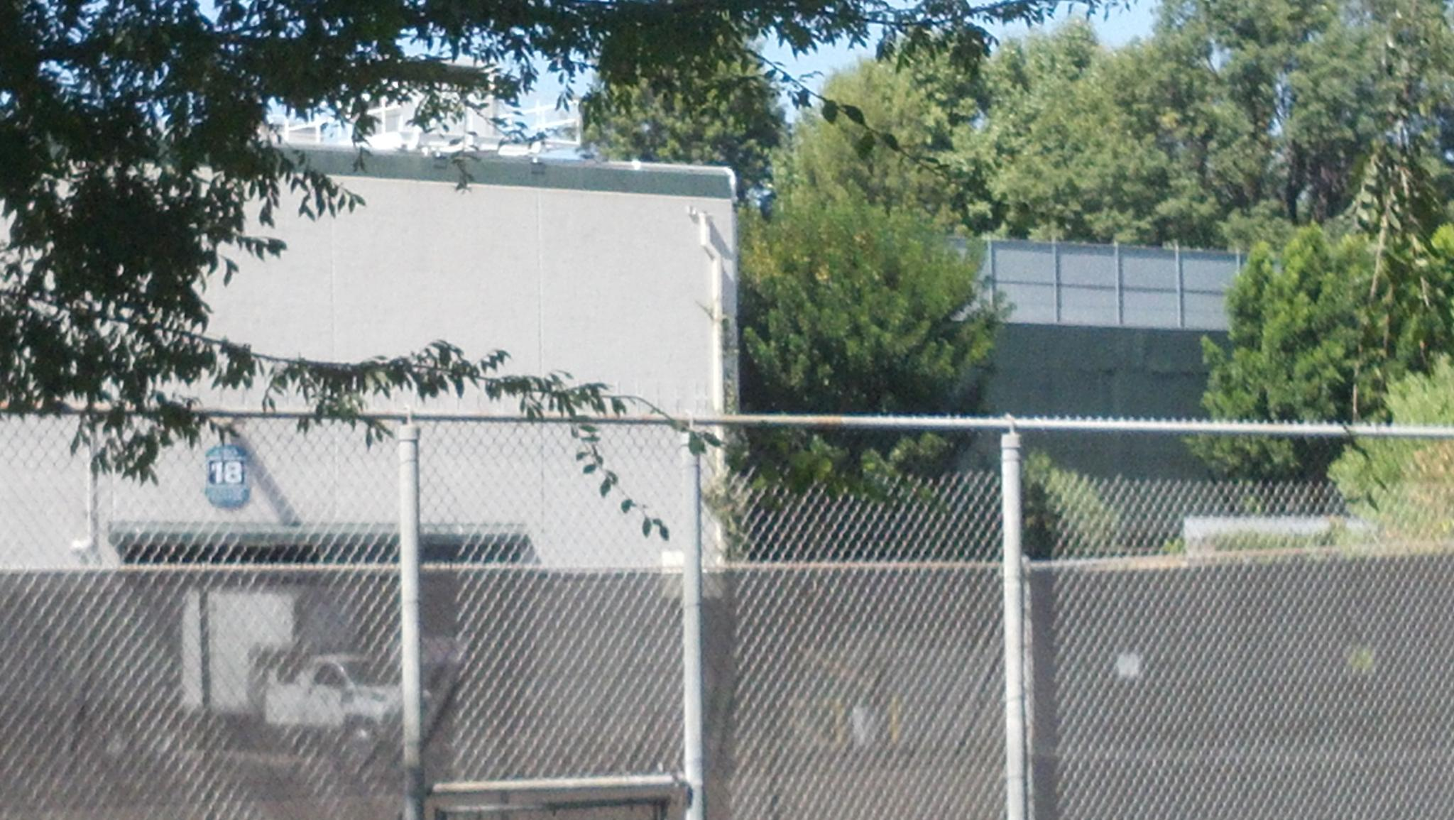 A picture of the soundstage that contains the Big Brother USA House.